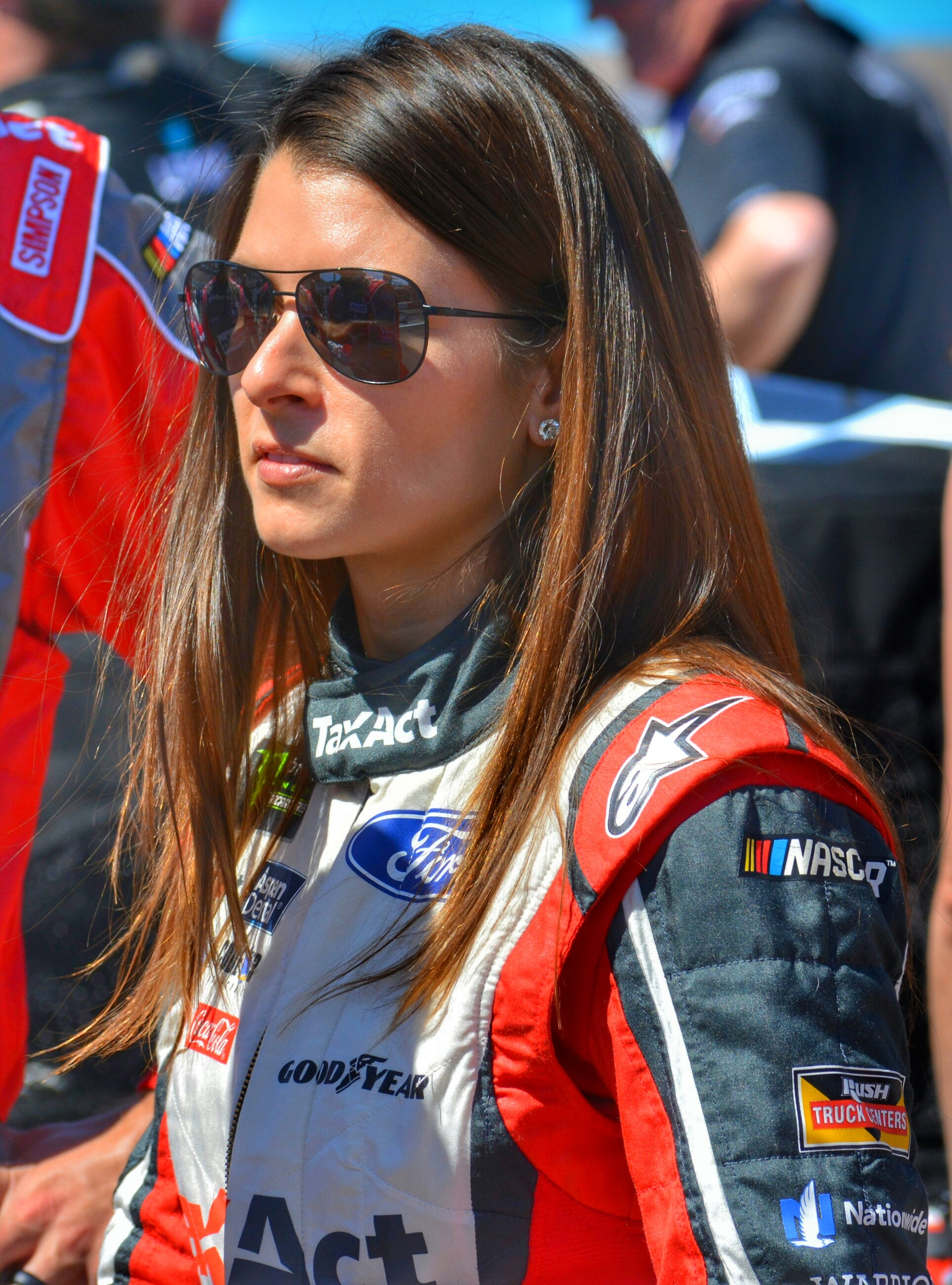 Danica Patrick driving the driver's parade on the Phoenix International Speedway pit road for the 2017 Camping World 500